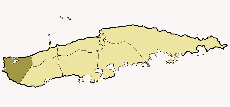 Map of Vieques (Puerto Rico) highlighting Punto Arenas ward.